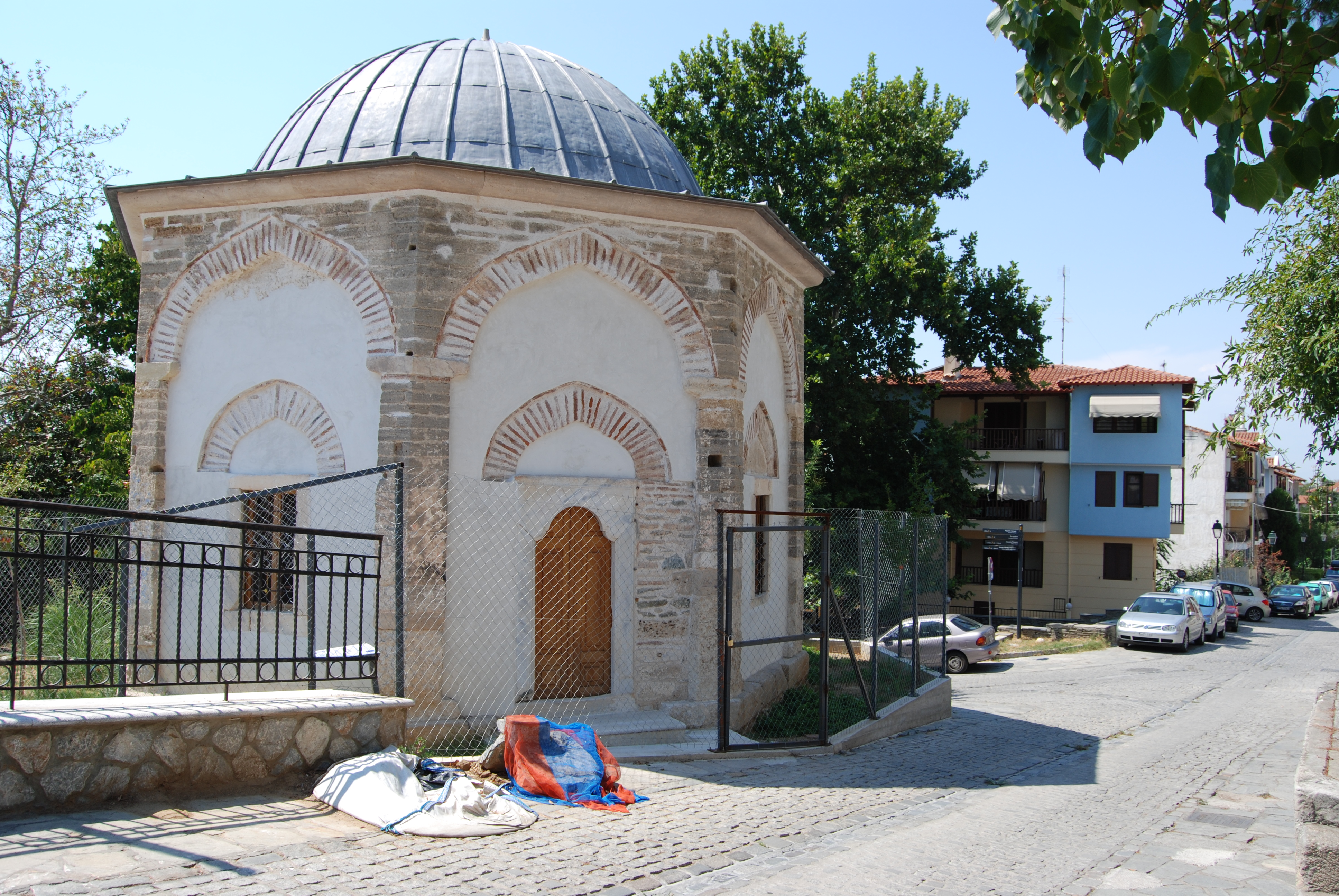 Musa baba turbe